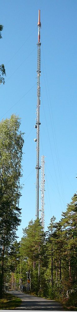 The link tower for the tv and the radio at Espoo, Finland.